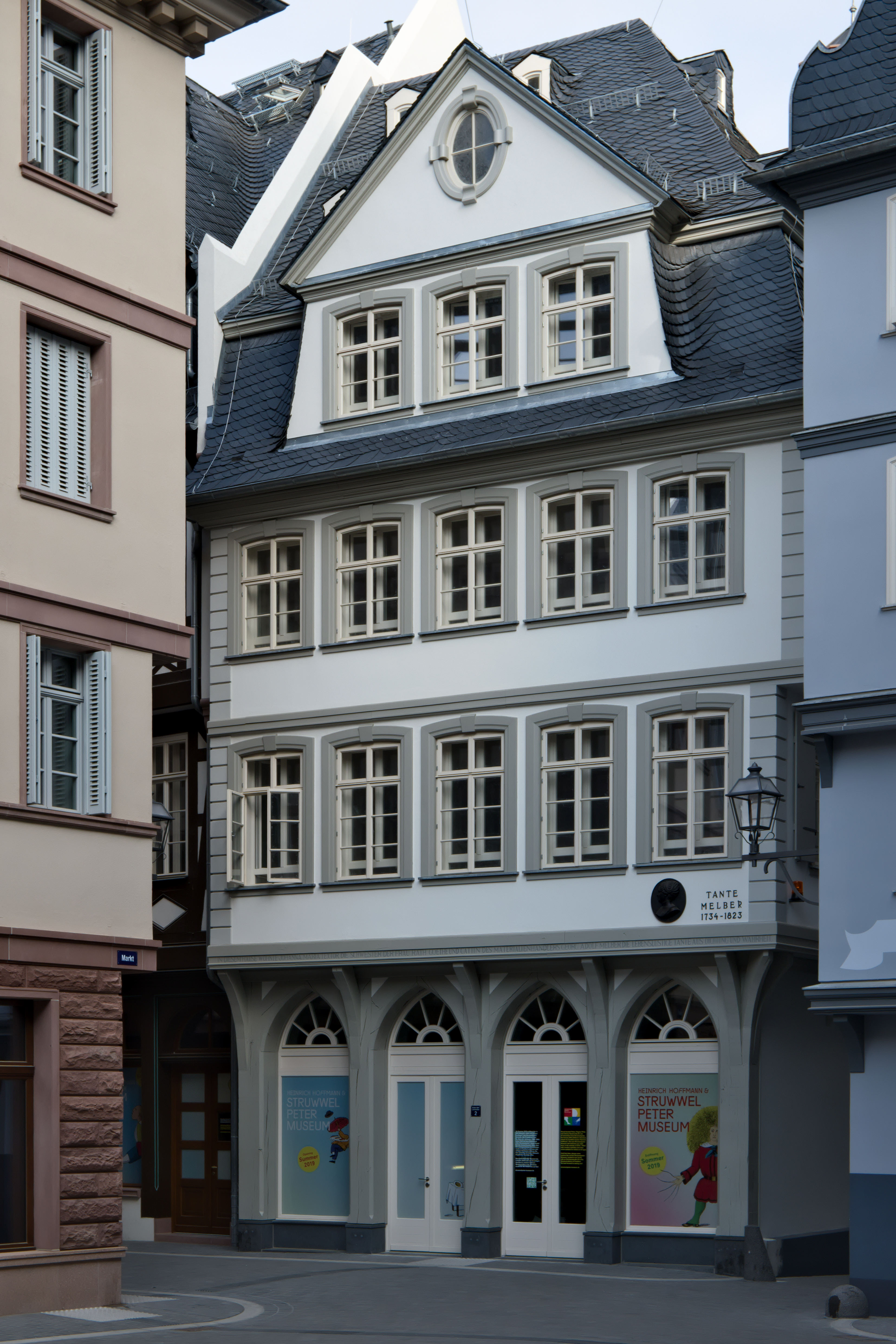 Reconstructed historic building "Haus zum Esslinger" in Frankfurt am Main, Germany. The inscription above the ground floor says (in German): "In this house lived Johanna Maria Textor, the sister of Misses Rath Goethe and wife of the merchant Georg Adolf Melber. The fun-loving aunt from "Dichtung und Wahrheit".